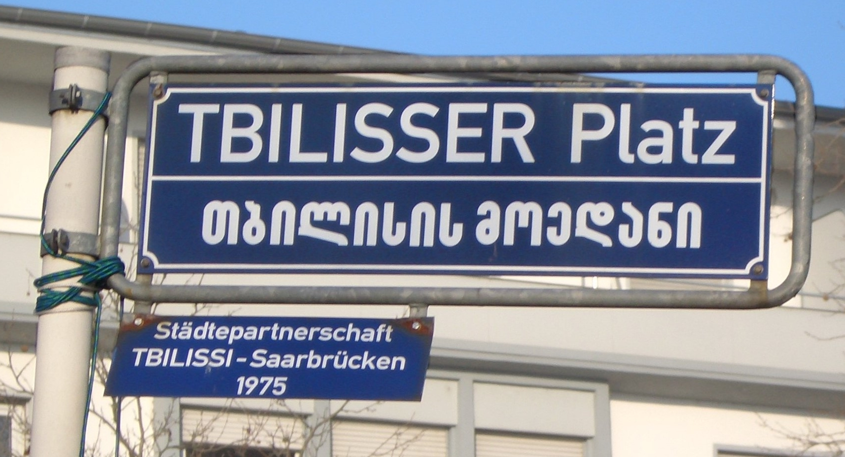 Tbilissi place in Saarbrücken, reminding of the twin towns